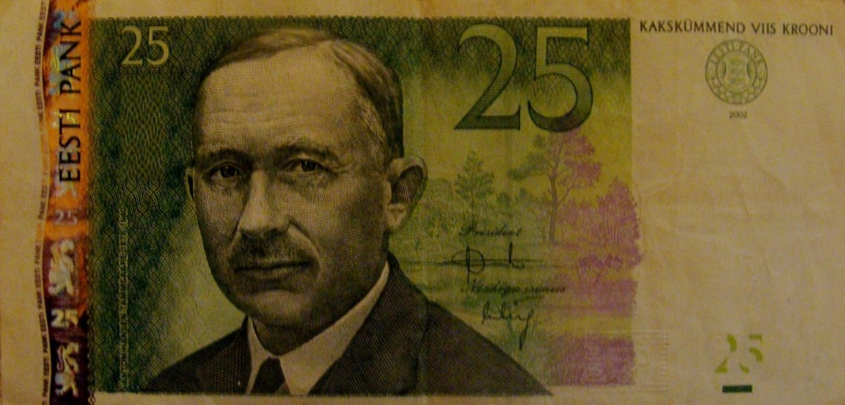 Estonian 25 Krooni Note